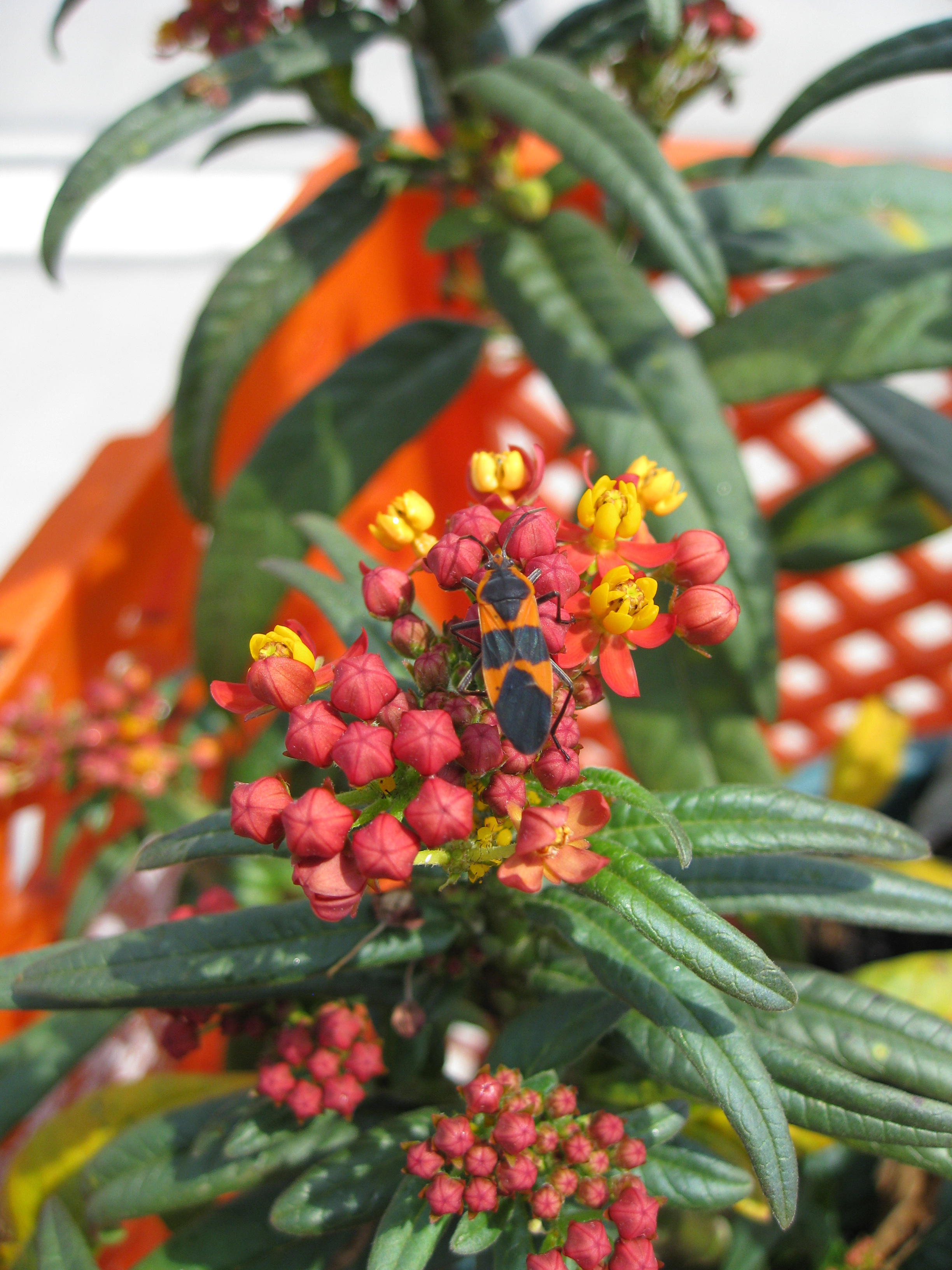 Milkweed bug on a butterfly weed taken near Melbourne, Florida.